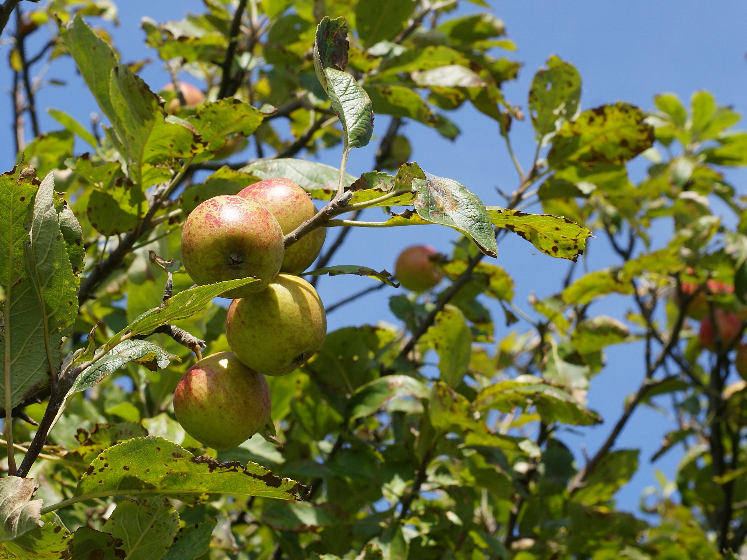 Apples at Vosseslag - De Haan, Belgium